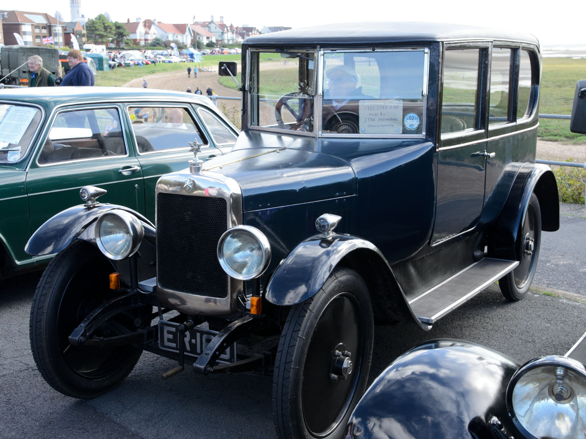 1922 Star 12 hp Lytham Classic Car Show 11/09/2016